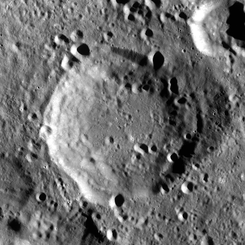 Crater Adams on the Moon. Mosaic of photos by Lunar Reconnaissance Orbiter, made with Wide Angle Camera. Size of the image is 100×100 km, north is up.